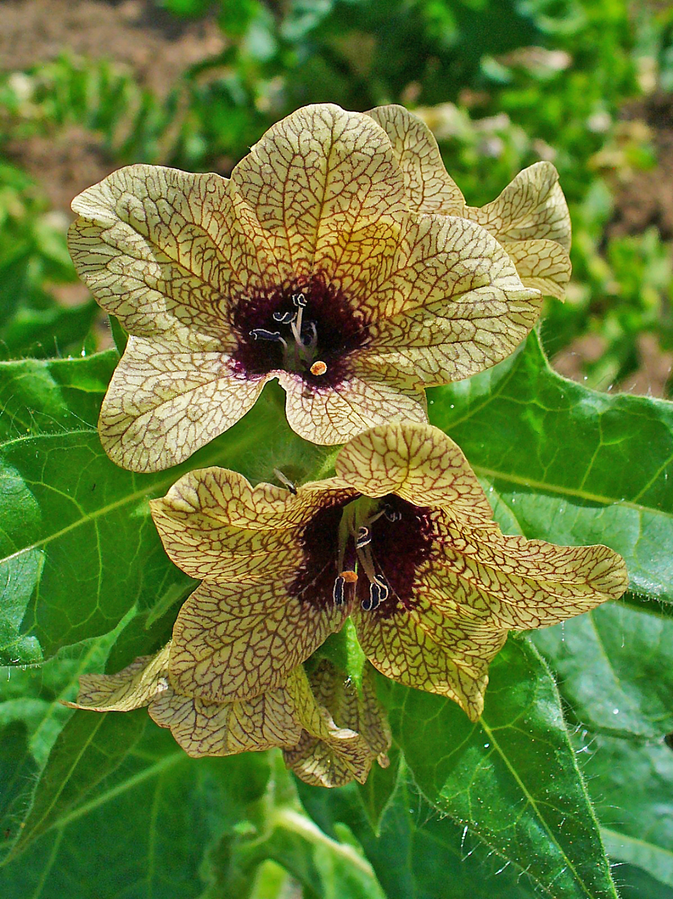 Hyoscyamus niger, Solanaceae, Henbane, Stinking Nightshade, flowers; Botanical Garden KIT, Karlsruhe, Germany. The whole, fresh, blooming plant is used in homeopathy as remedy: Hyoscyamus (Hyos.)